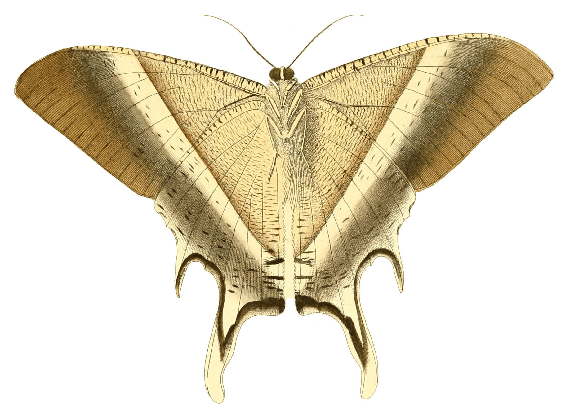 Extract from Plate VIII. NYCTALEMON PATROCLUS (= Lyssa patroclus). Ventral view.